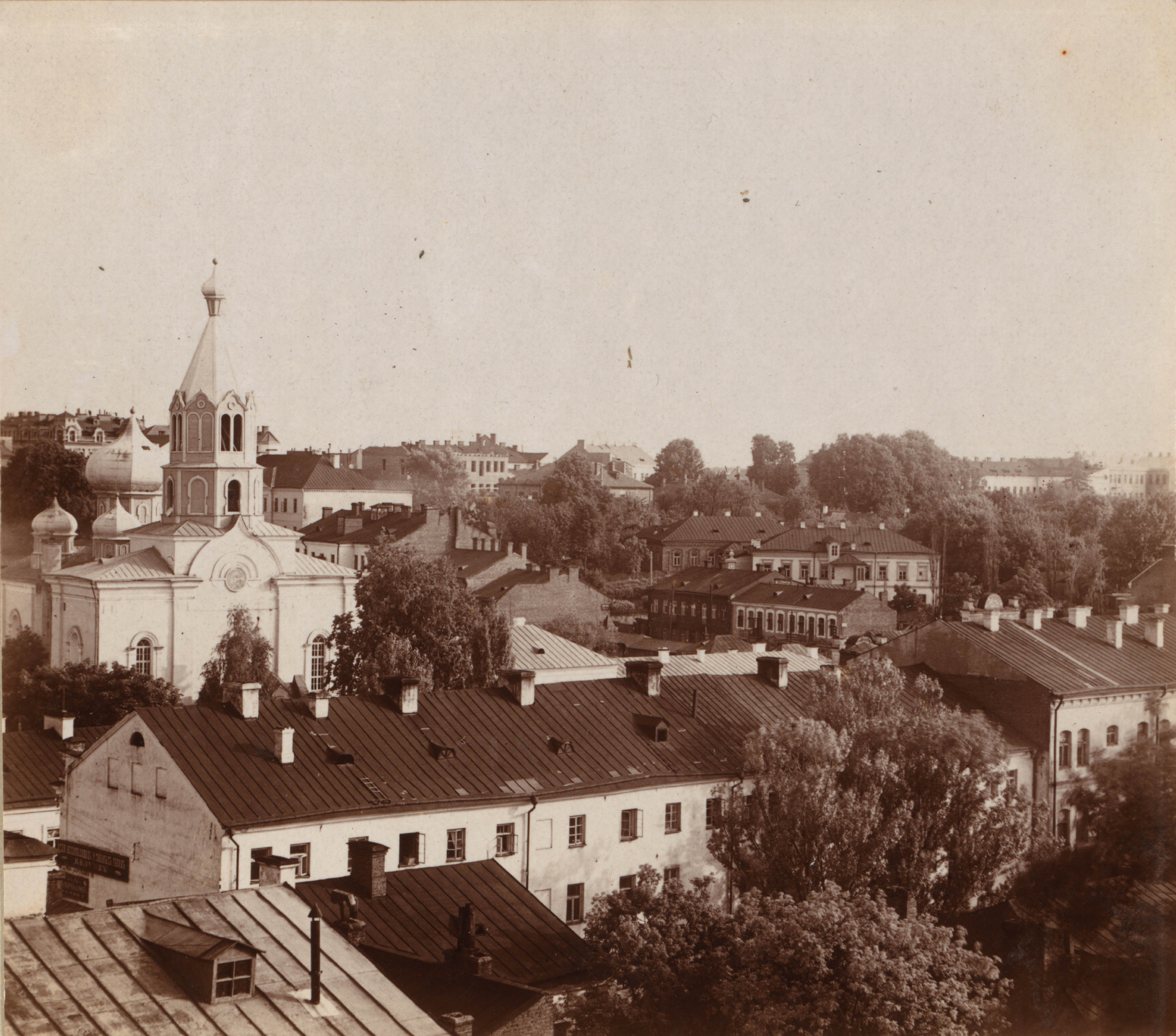 Catholic Church of St. Adalbert (Orthodox Church), Miensk